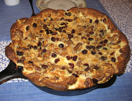 Clafoutis dessert. Photo by Carl Tashian (that's me)